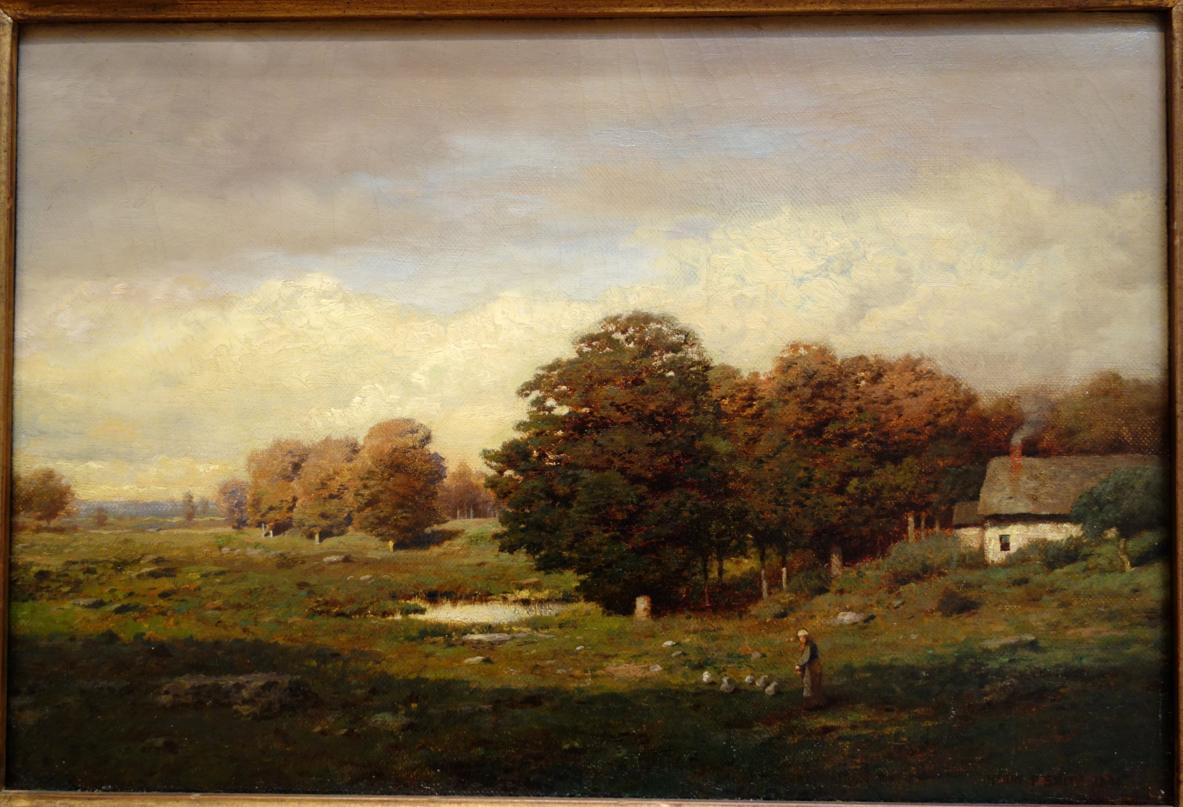 Exhibit in the Chazen Museum of Art, University of Wisconsin-Madison, Madison, Wisconsin, USA. This artwork is old enough so that it is in the public domain.